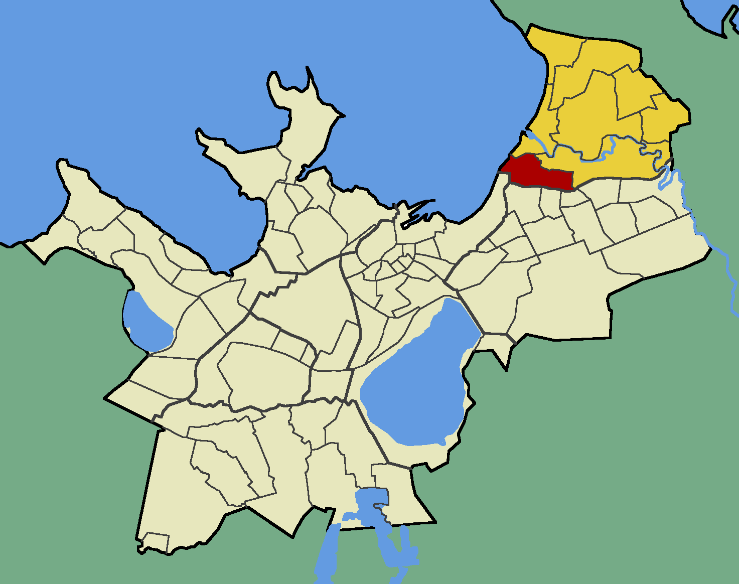 Map of Tallinn (Estonia) with borders of the quarters, Pirita district and Maarjamäe quarter emphasised